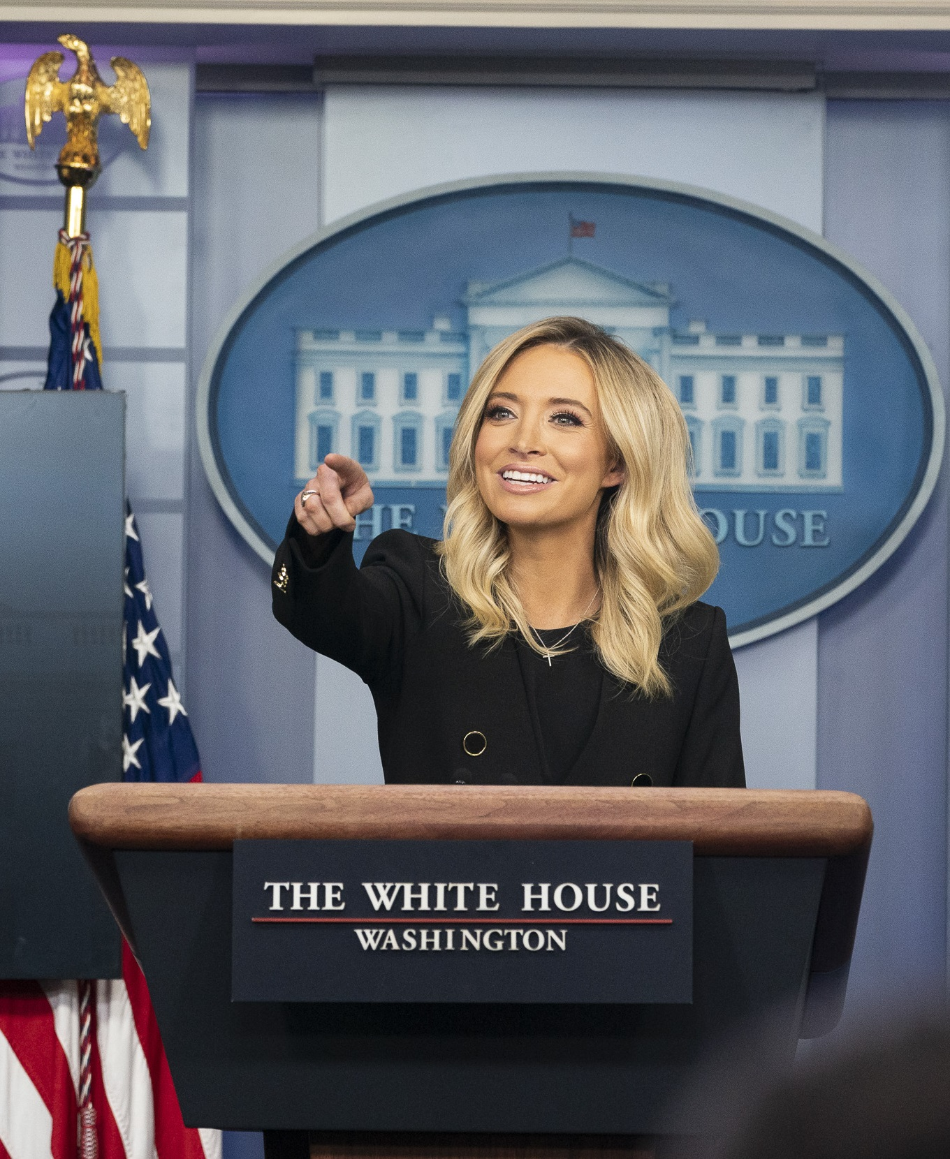 White House Press Secretary Kayleigh McEnany points to a reporter to take a question at a White House press briefing Friday, May 1, 2020, in the James S. Brady Press Briefing Room of the White House. (Official White House Photo by Joyce N. Boghosian)